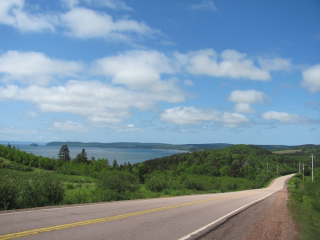 A view of the village and island of Spencer's Island, Nova Scotia from Route 209 near Fraserville along the Parrsboro Shore.